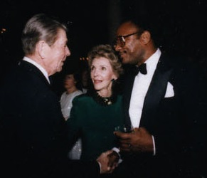 From Reagan Library website.